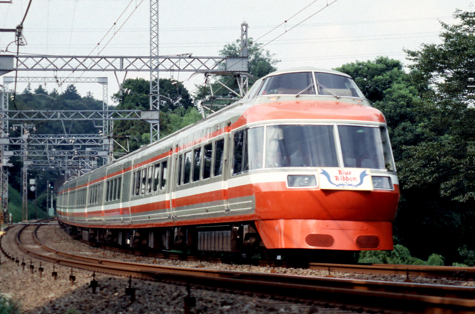 The award memorial train of the Blue Ribbon Prize by Japan Railfan Club of Odakyu Electric Railway 7000 series EMU running between Sobudaimae and Zama.